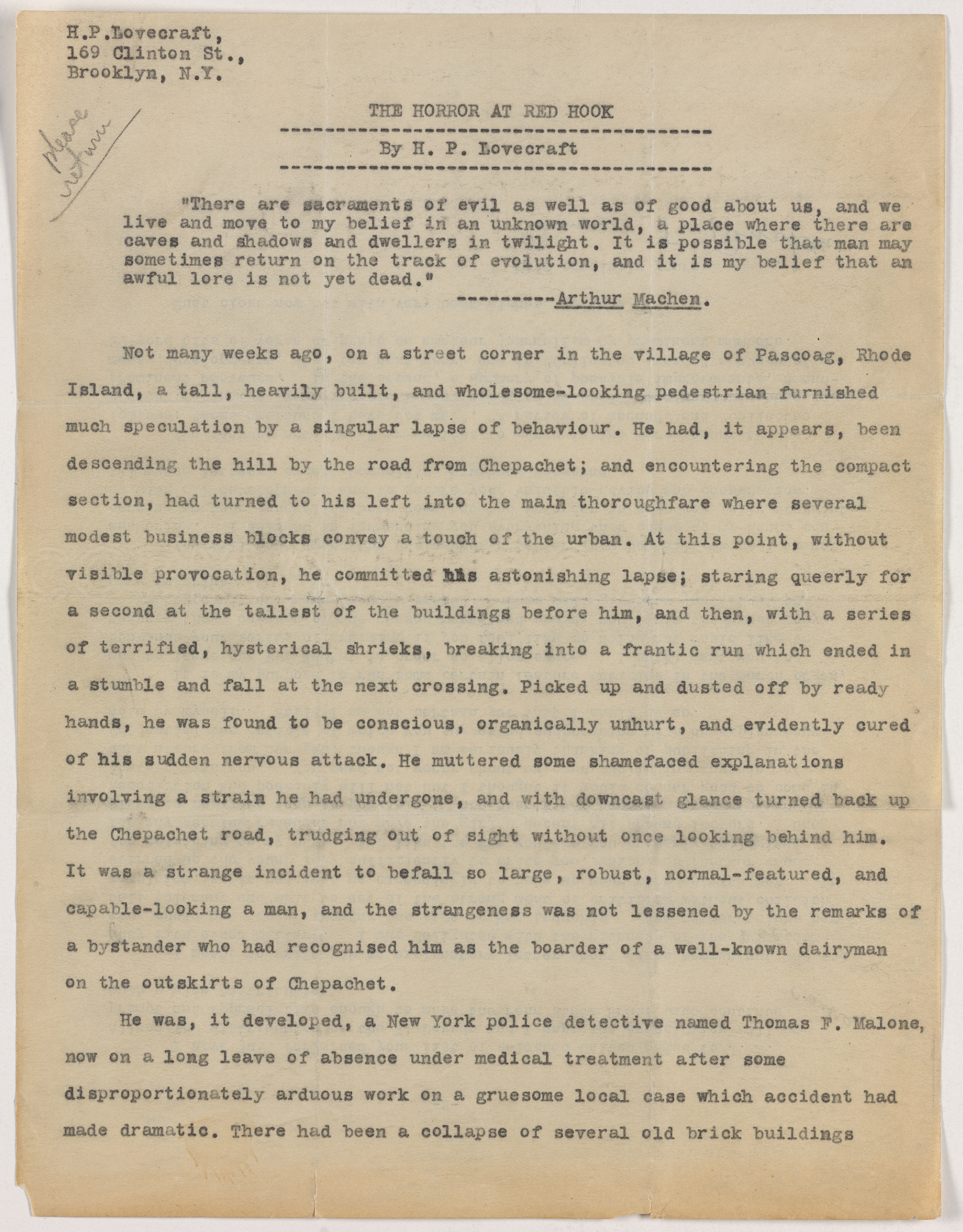 First page of the manuscript The Horror at Red Hook.